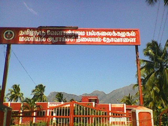 Flower research station.